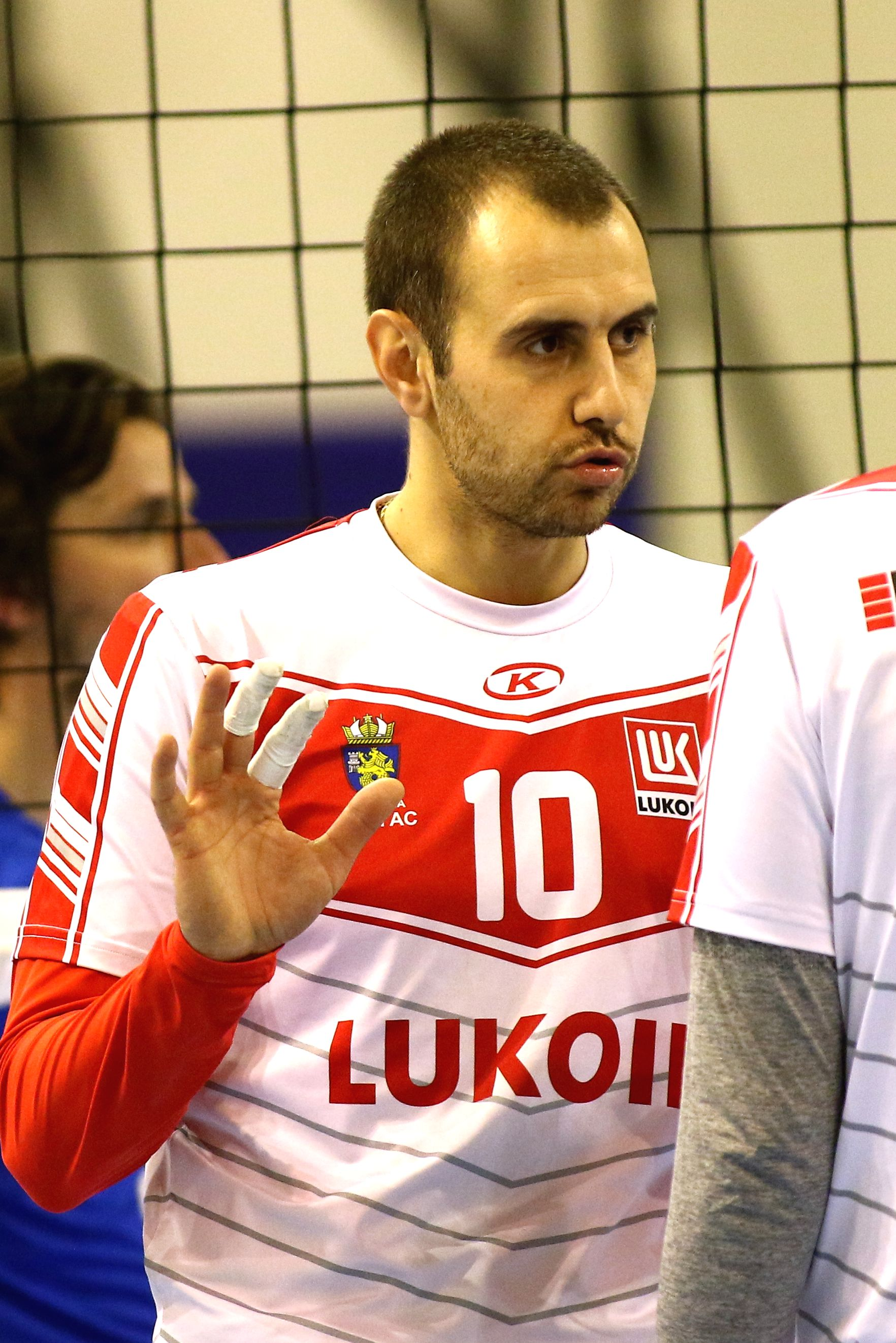 Valentin Sashkov Bratoev is a Bulgarian national volleyball player. He plays the welcoming post. He has a twin brother, Georgi Bratoev, who is also a national player